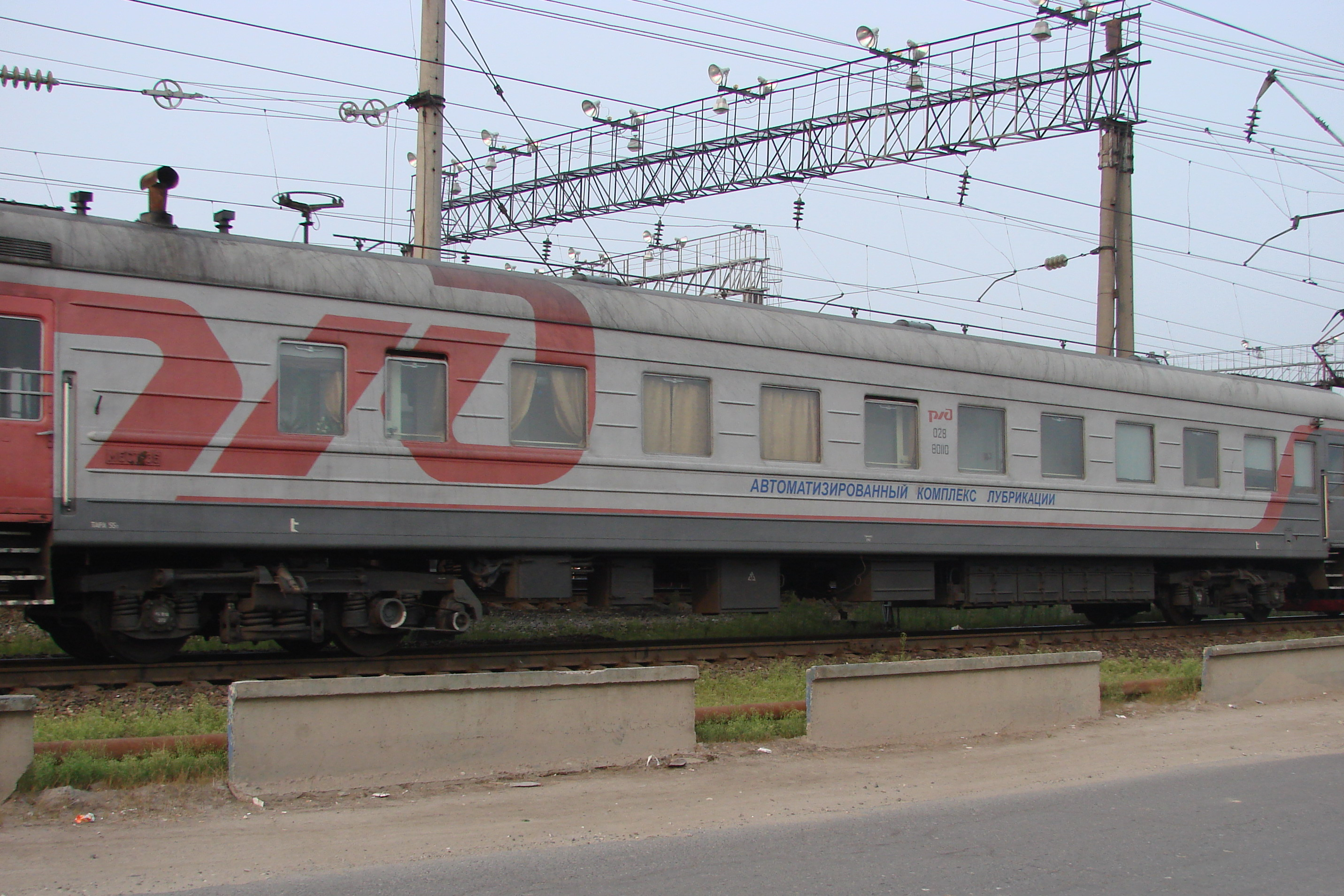 Russia, Vologda, Rail-lubricator